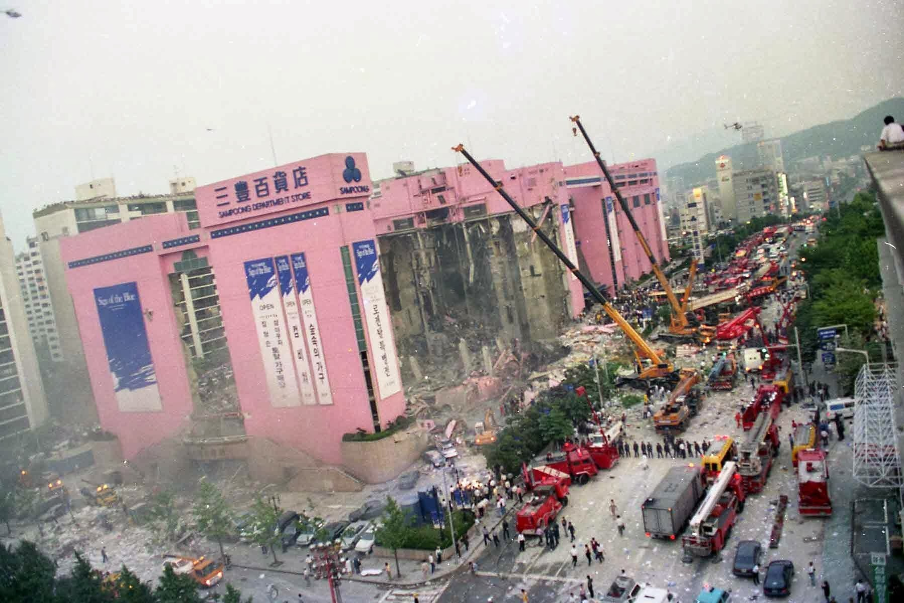 Sampoong Department Store Collapse